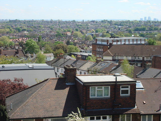 North London Sprawl. This is the view from the top of the railway arches shown in 1080378 and 443500